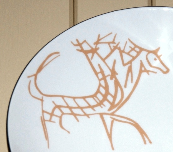 A reproduction of the more than 1000 year old Skien animal, here painted on a porcelain plate.